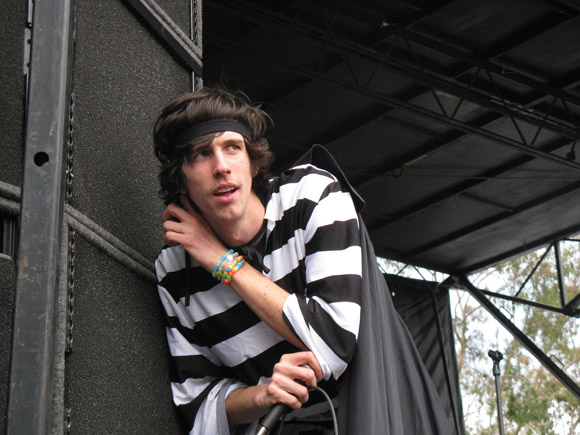 3OH!3's Nathaniel Motte in Bamboozle Left, Sunday April 6, 2008.